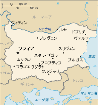 Map of Bulgaria, in Japanese, from the United States Central Intelligence Agency's World Factbook